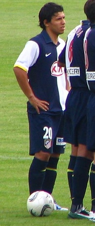 Sergio Agüero. Image cropped from original at flickr.